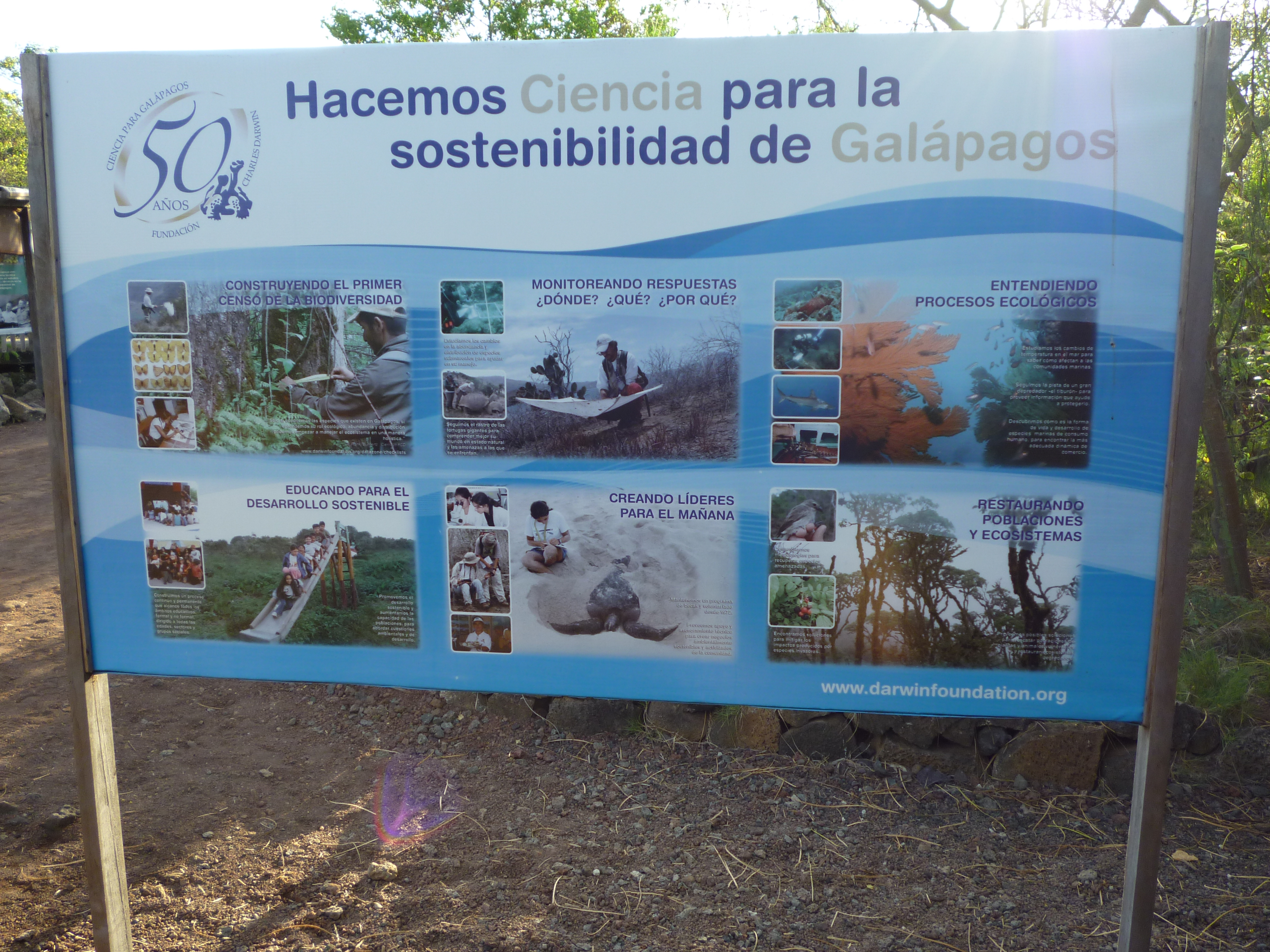 Photographed inside the Charles Darwin Research Station - Puerto Ayora - Island of Santa Cruz - Galapagos